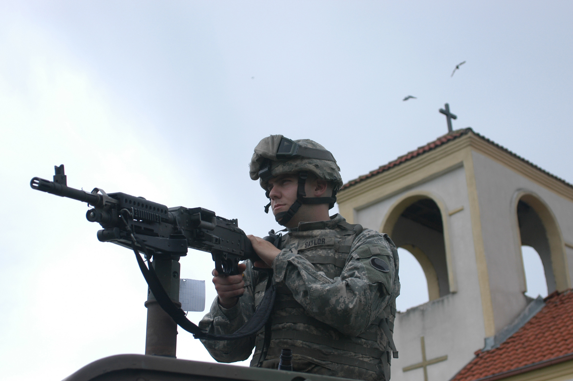 KFOR soldier protecting Serb orthodox church in Klokot, near Vitina.